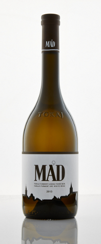 Village level dry Furmint. The first commune level wine gaining international attention.